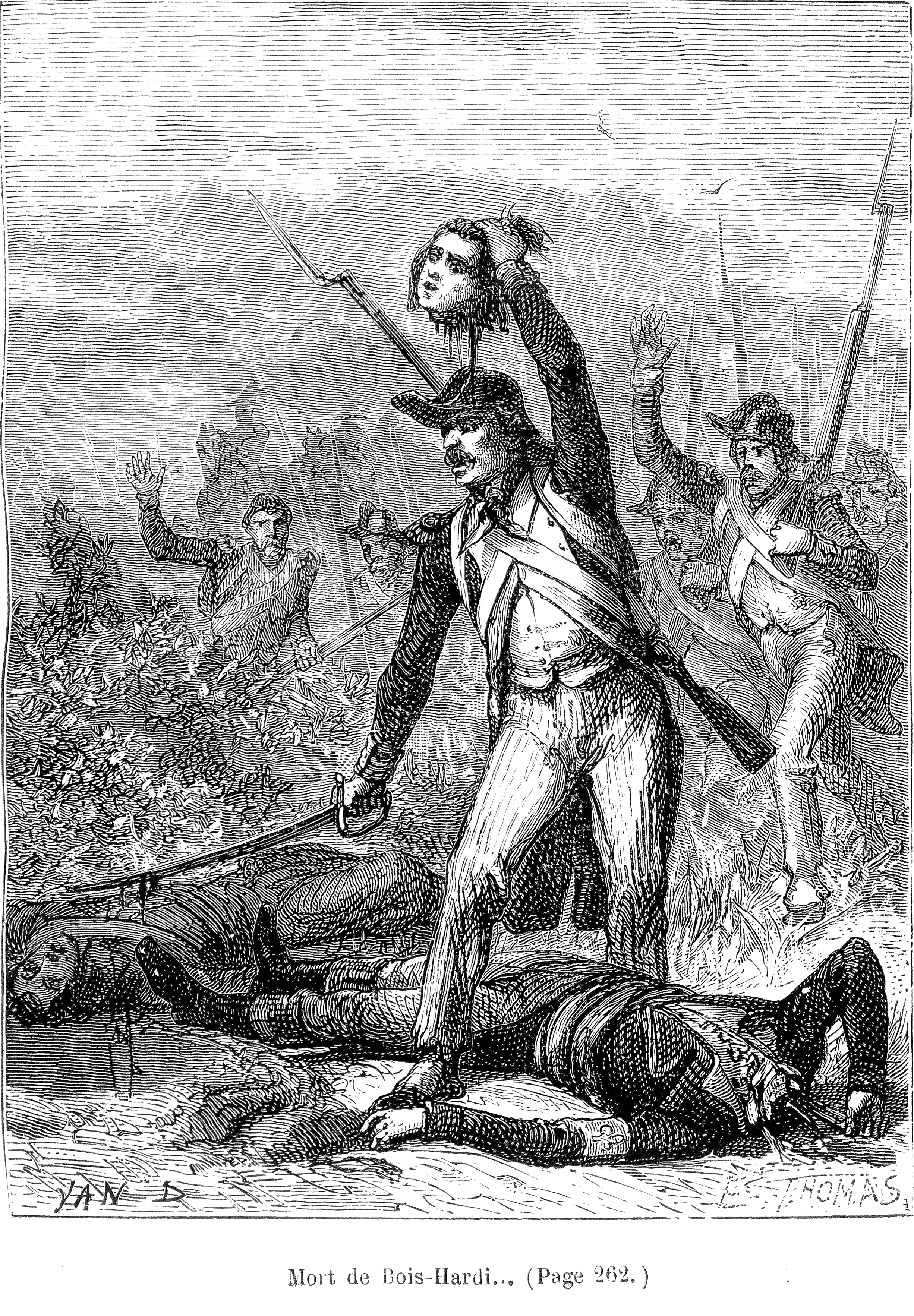 The death of Amateur-Jérôme de Boishardy, 17-18 june 1795, near Moncontour (Brittany)